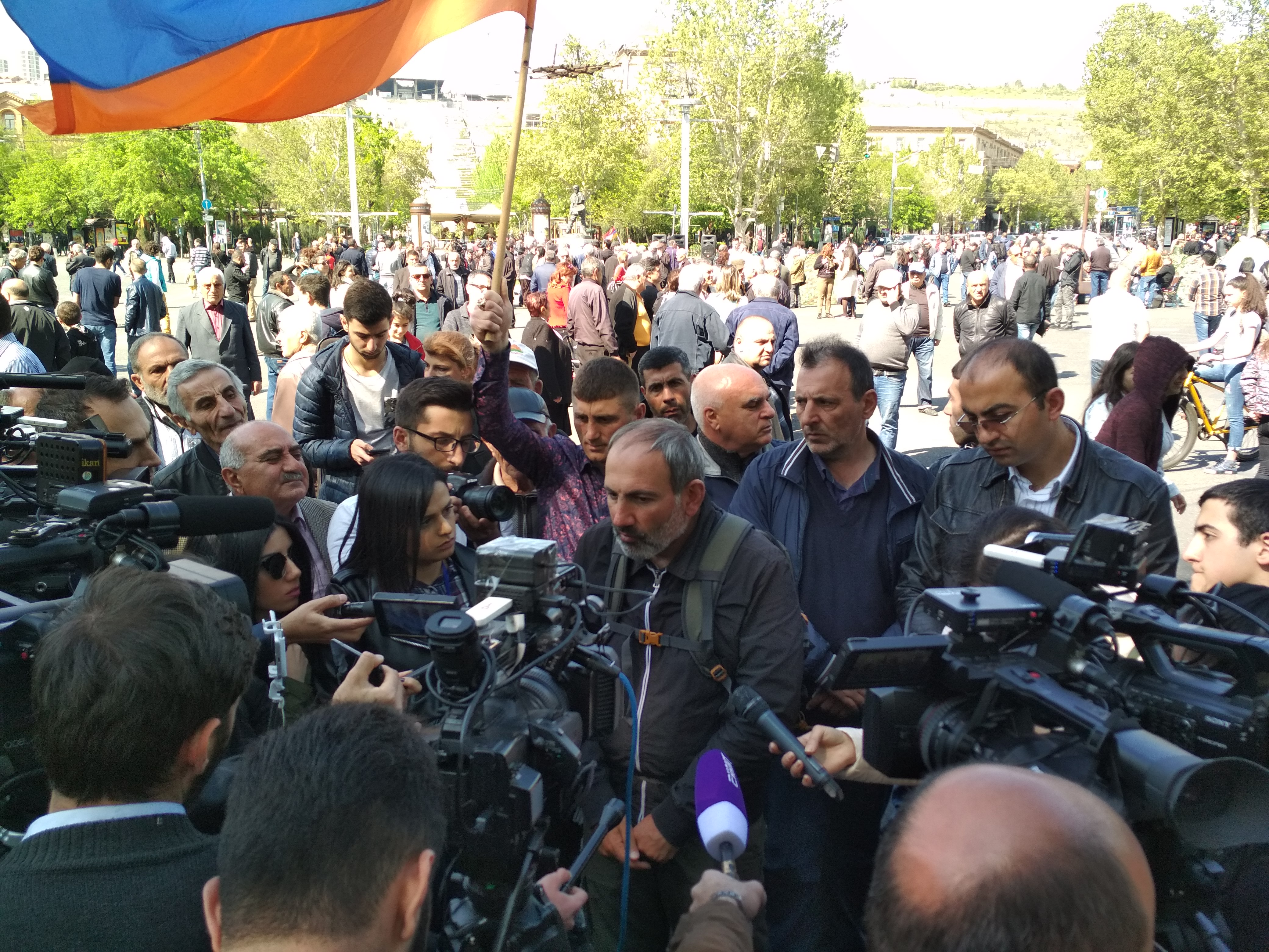 Nikol Pashinyan